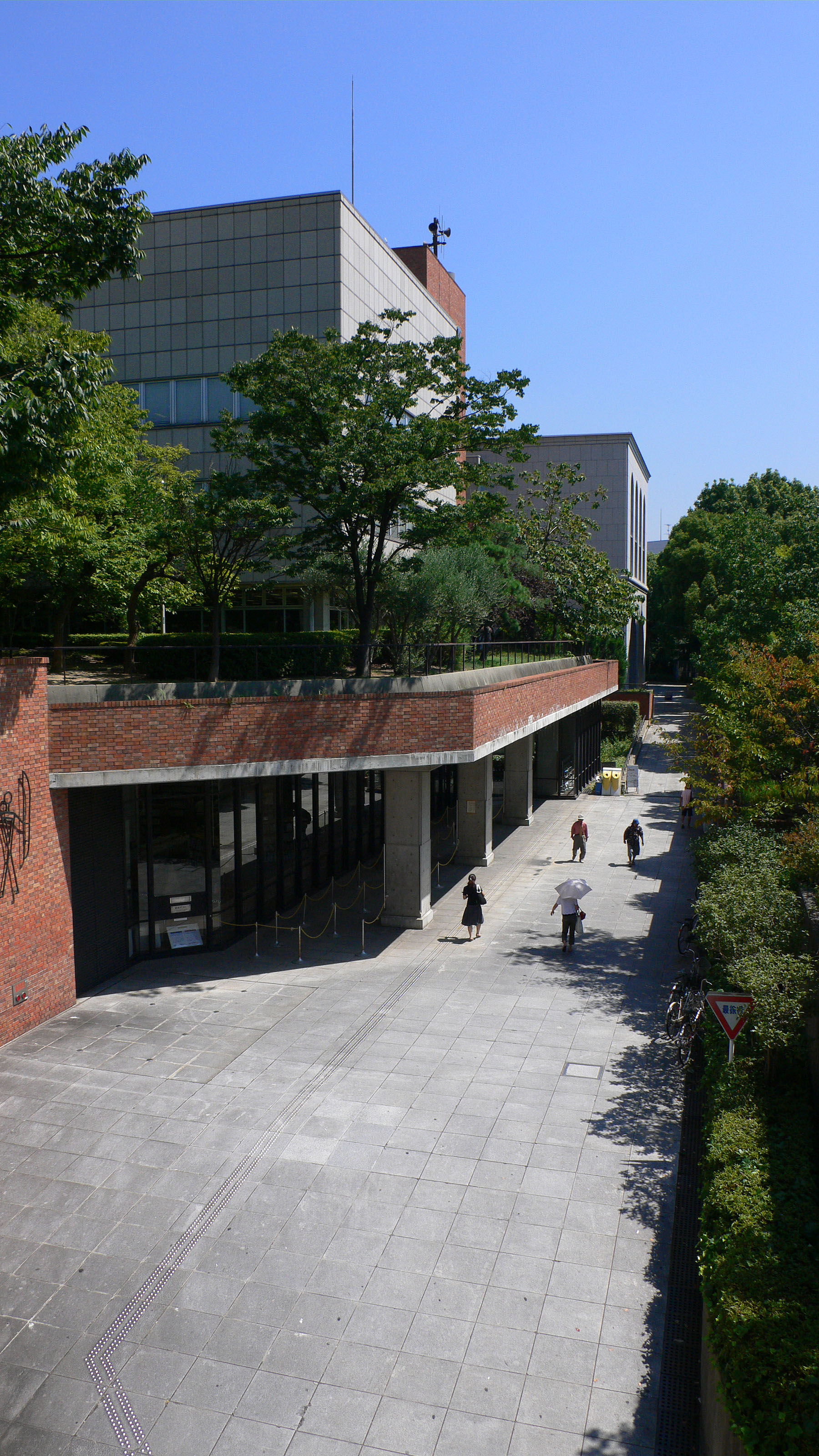 Kobe Municipal Central Library in Kobe, Hyogo, Japan